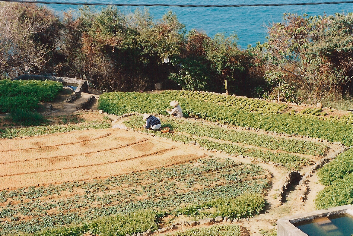 Market gardening in Pak Kok Tsuen (village) on Lamma Island, Kong Kong, overlooking the Lamma Channel to the north. I believe these fields were worked by the couple who lived in the small house, bottom right of Image:Lamma evening1turn.jpg. This is the view from the roof of a house on a slight rise between the valley and the sea. Taken 1992/3 on Fuji film.